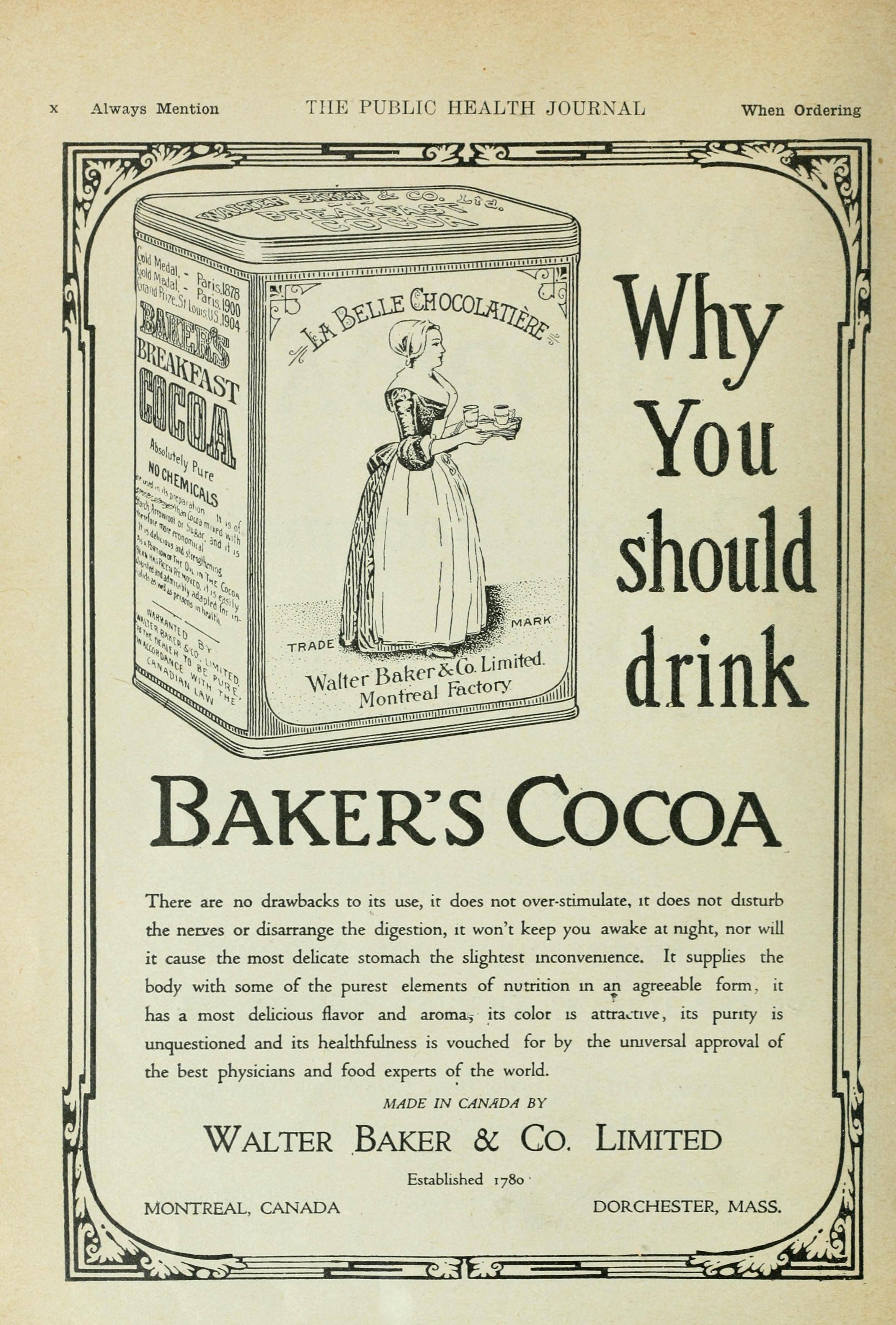 Title: Canadian journal of public health Year: 1910 (1910s) Authors: Canadian Public Health Association Subjects: Public health Public health Medicine, Preventive Health Care Periodicals Publisher: Toronto, Canadian Public Health Association Text Appearing Before Image: py and Advertising Tariff freeon application. Head Officec55-56 Chancery Luie, Loidon, W. C., England The CENTRAL CANADALOAN and SAVINGS CO. 26 King St. East, Toronto Total Assets $9,850,000 Capital (sub.) $2,500,000 Capital (paid up) $1,750,000 Reserve Fund $1,750,000 Deposits received anddebentures issued. PresidentE. R. WOOD Vice-PresidentH. C. COX Vice-PresidentG. A. MORROW Always Mention THE PUBLIC HEALTH JOURNAL When Ordering ix CANADIAN PACIFIC FLORIDA VIA Detroit Cincinnati Why not Florida for your Winter Tour?The Attractions are Unsurpassed Beautiful Palm Trees. Warm Sea Bathing. Golf. Orange and Banana Groves. Tarpon Fishing. Luxurious Hotels, for all Pockets. TWO NIGHTS ONLY FROM TORONTOWINTER TOURIST TICKETS NOW ON SALE Fast Train 4.00 p.m. Daily from Toronto via CanadianPacific, Making Direct Connection at Detroit. Particulars from Canadian Pacific Ticket Agents or write W. B. Howard,District Passenger Agent, Toronto. Always Mention THE PUBLIC HEALTH JOURNAL When Ordering Text Appearing After Image: BAKERS Cocoa There are no drawbacks to its use, it does not over-stimulate, it does not disturbthe nerves or disarrange the digestion, it wont keep you awake at mght, nor willit cause the most delicate stomach the slightest mconvemence. It supplies thebody with some of the purest elements of nutrition in an agreeable form, ithas a most delicious flavor and aroma^ its color is attractive, its purity isunquestioned and its healthfiilness is vouched for by the umversal approval ofthe best physicians and food experts of the world. MADE IN CANADA BY Walter Baker & Co. Limited Established 1780 (^ MONTREAL, CANADA DORCHESTER, MASS.